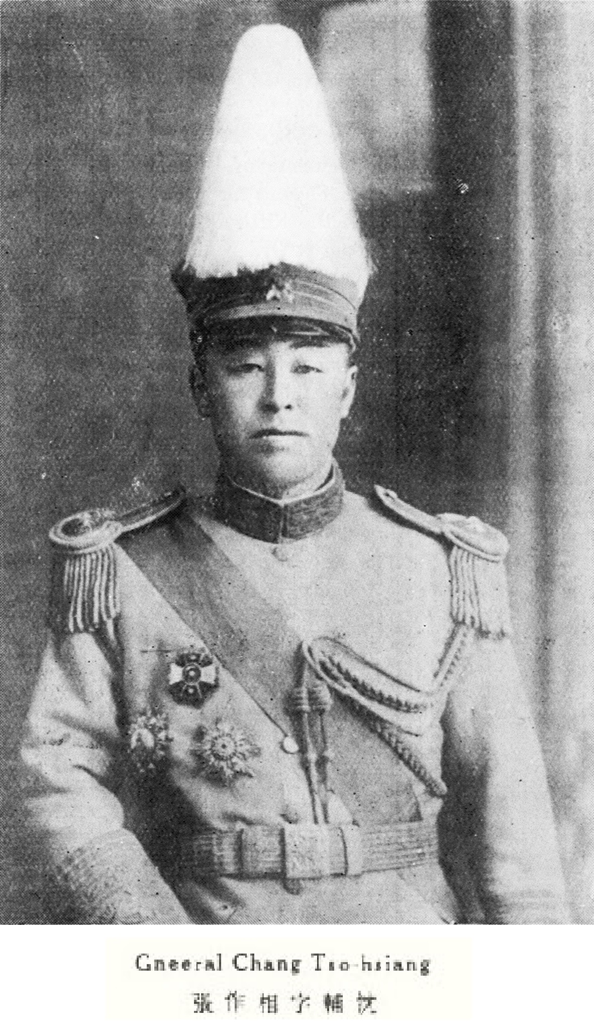 Zhang Zuoxiang (Chang Tso-hsiang), Fuchen (1881 - 1949)